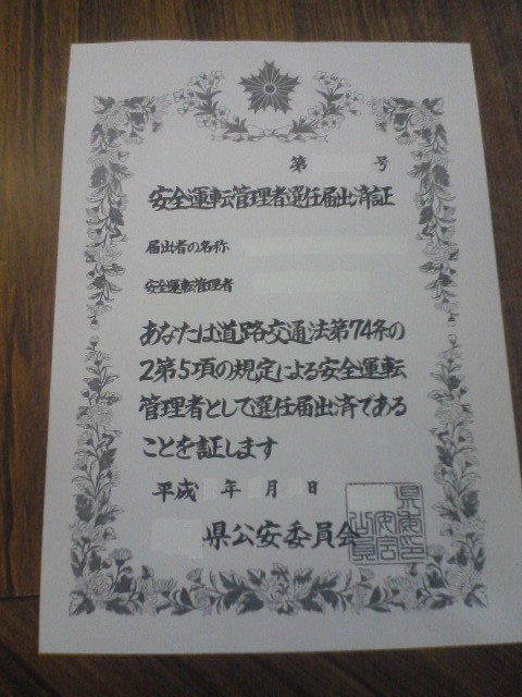 anzen-unten-kanrisha